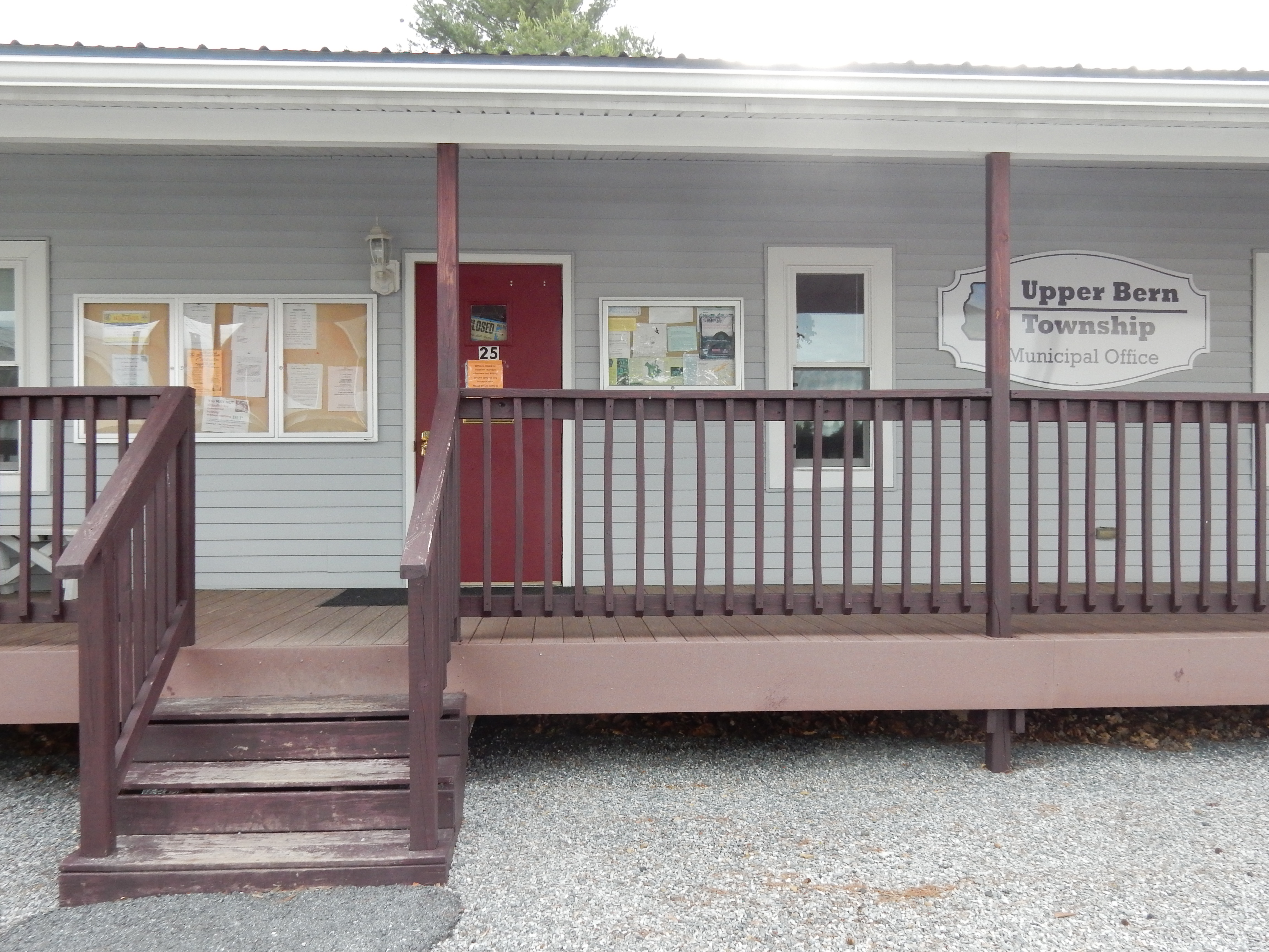 Upper Bern Township, Berks County, Pennsylvania. Township office, 25 N. 5th St., Shartlesville.